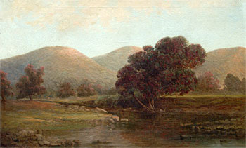 Warrens Creek, Port Fitzroy, Great Barrier by Emma Maria Walrond died 1943 c. 1900